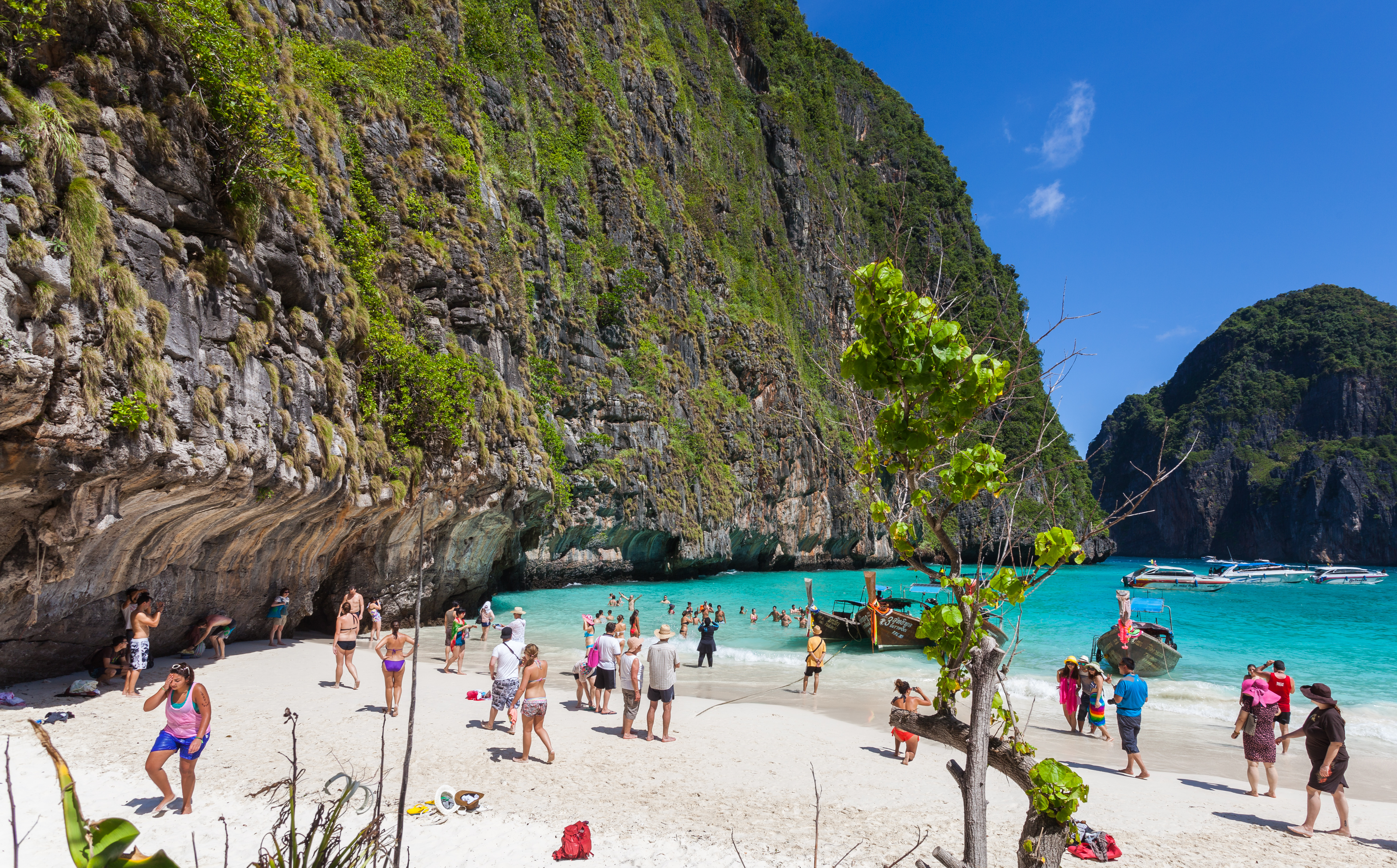 Maya Beach, Ko Phi Phi, Thailand